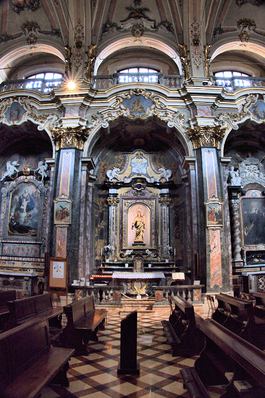 Second chapel on the left of "Santissima Trinità" church in Crema, Italy